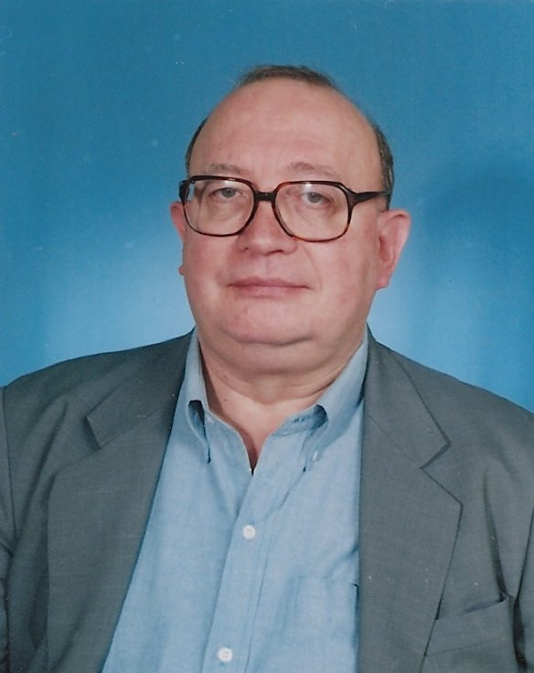 Henri Sala author of boardgames like Black Cannon